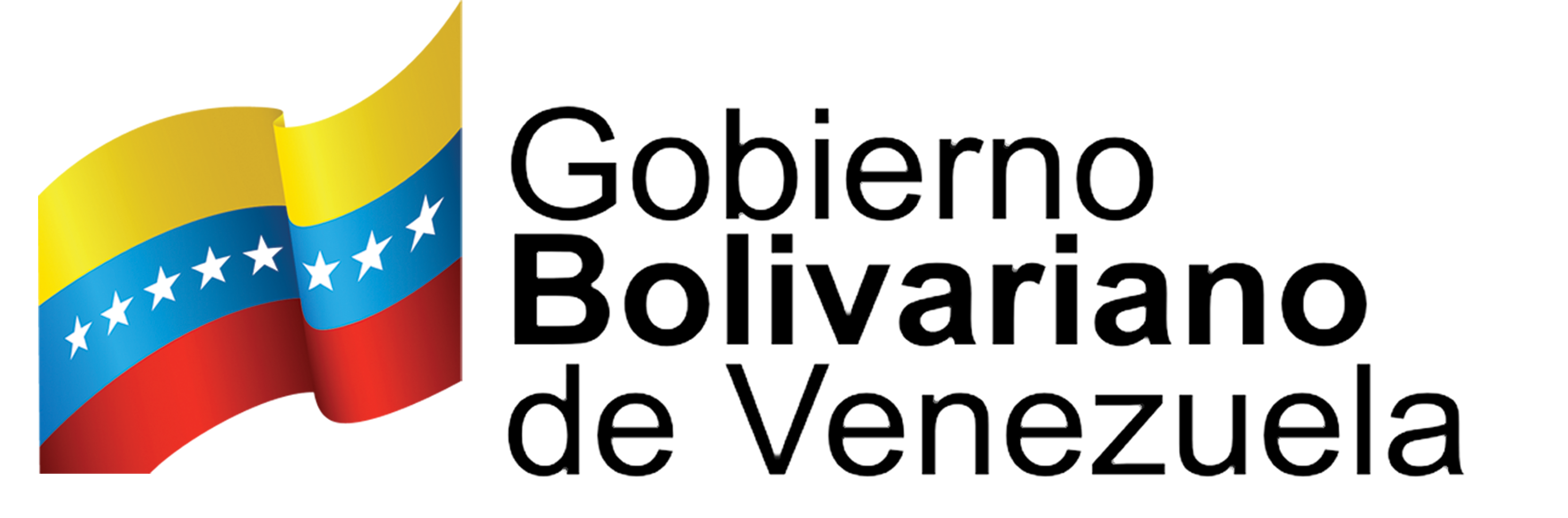 Política de Venezuela